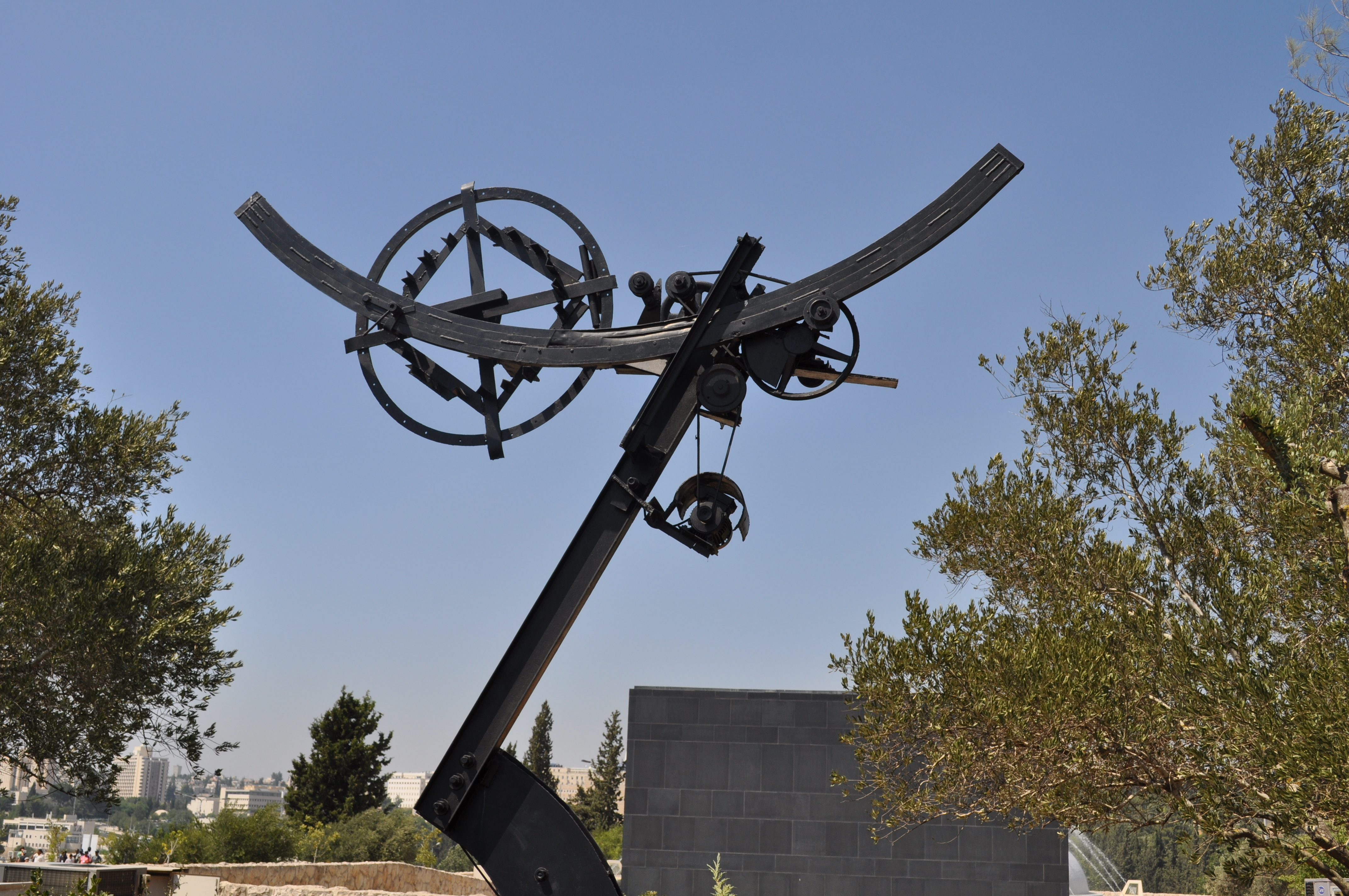 Eos (3) by Jean Tinguely, Billy Rose Art Garden in Jerusalem